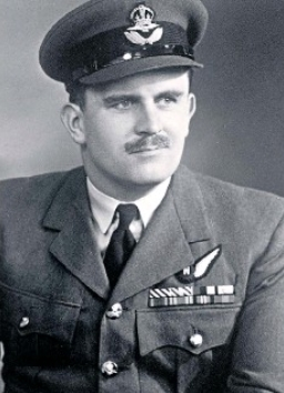 Rex Sanders DFC